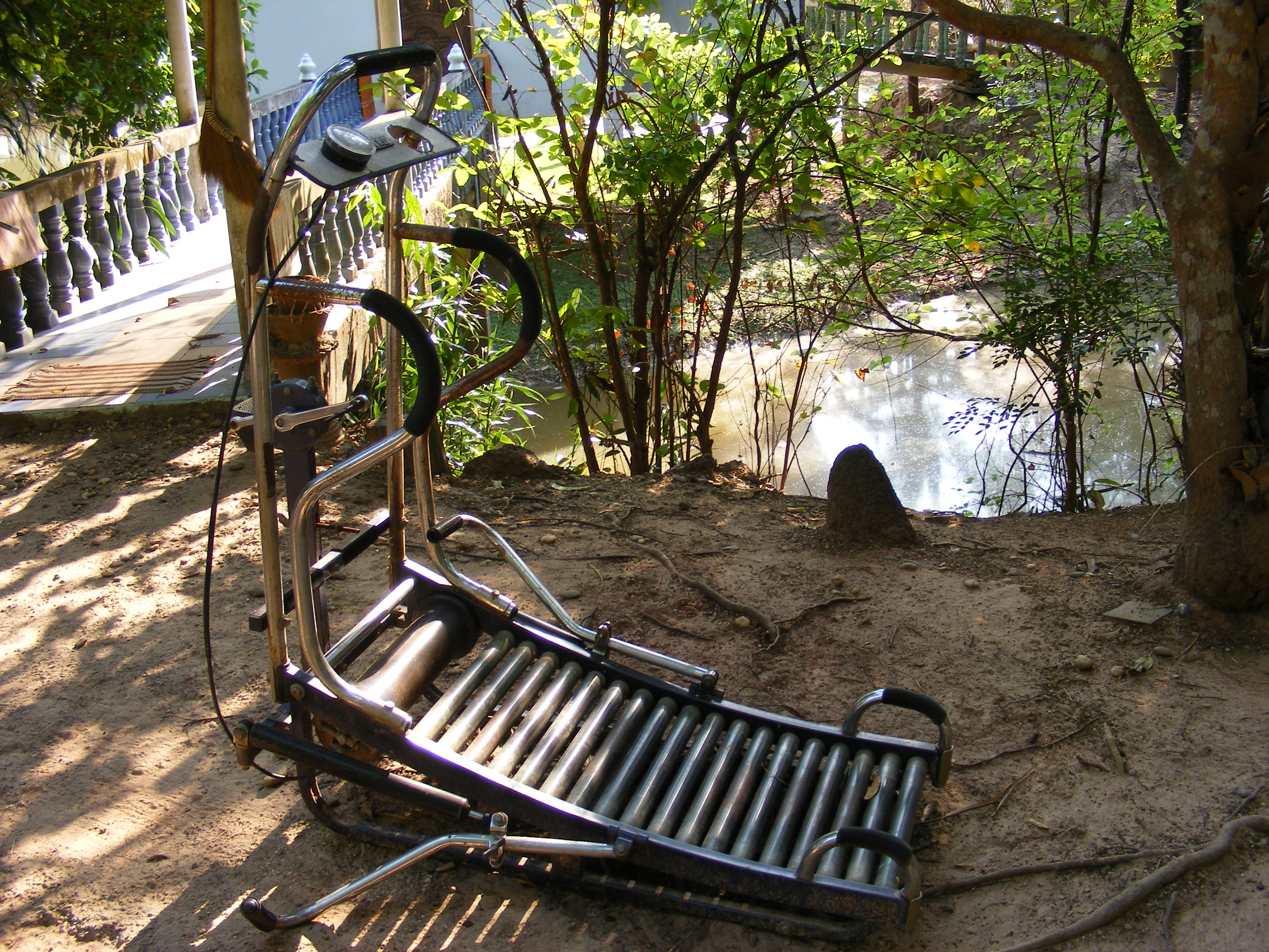 Simple treadmill, seen in Thailand.